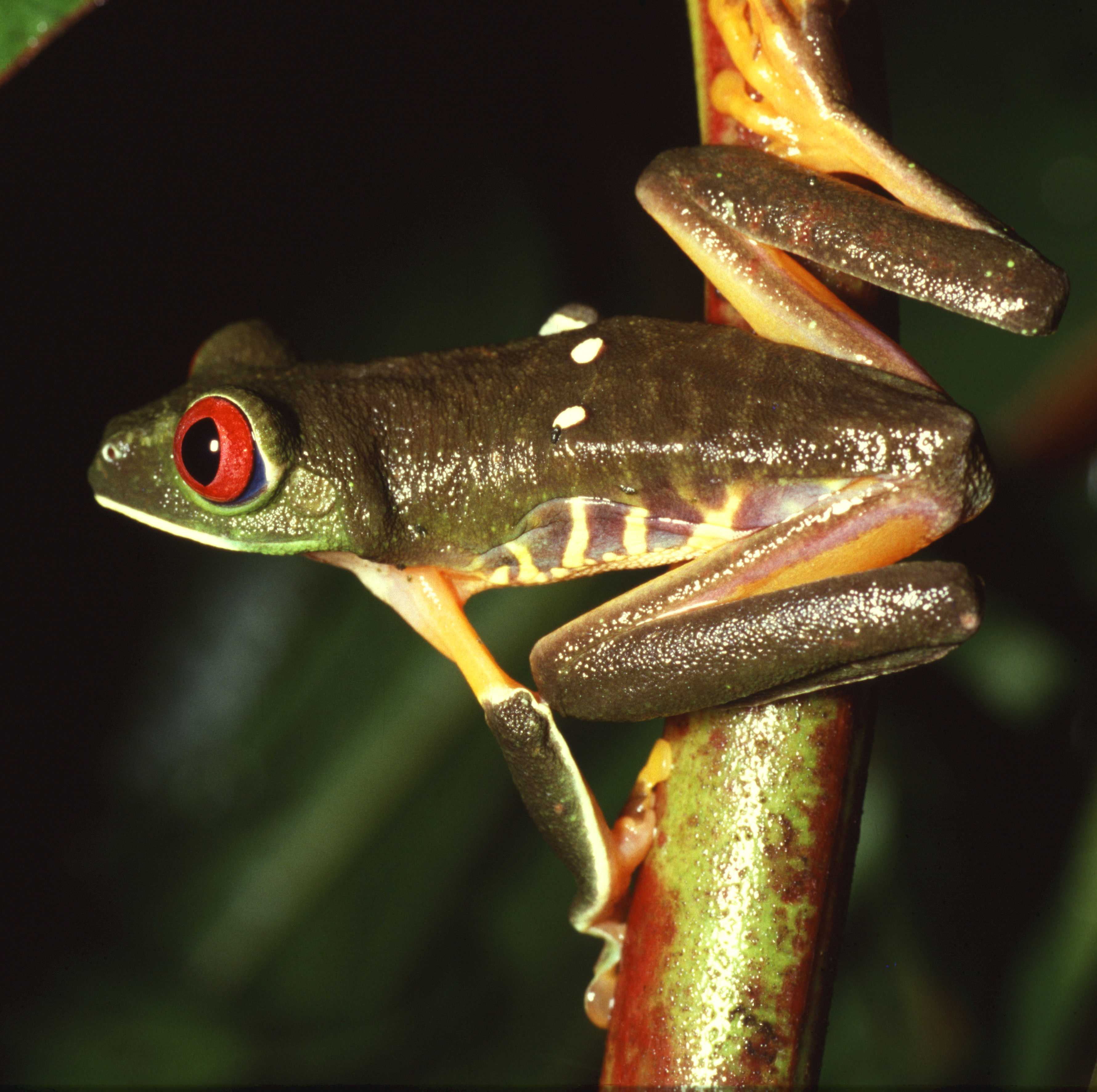 Red-eyed treefrog (female), photographed on Barro Colorado Island, Panama